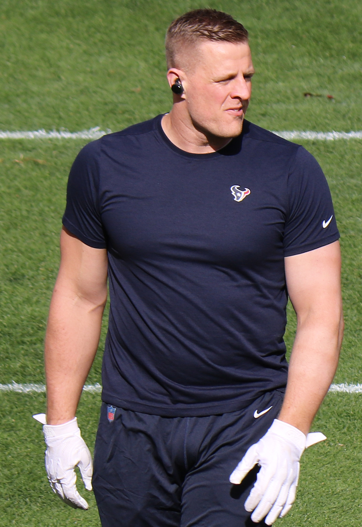 J. J. Watt, a National Football League player.